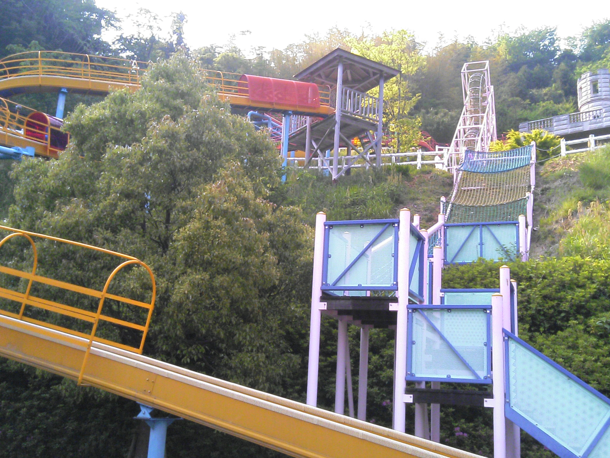 Adventure Hill in Red Wing Park, Ikata, Japan